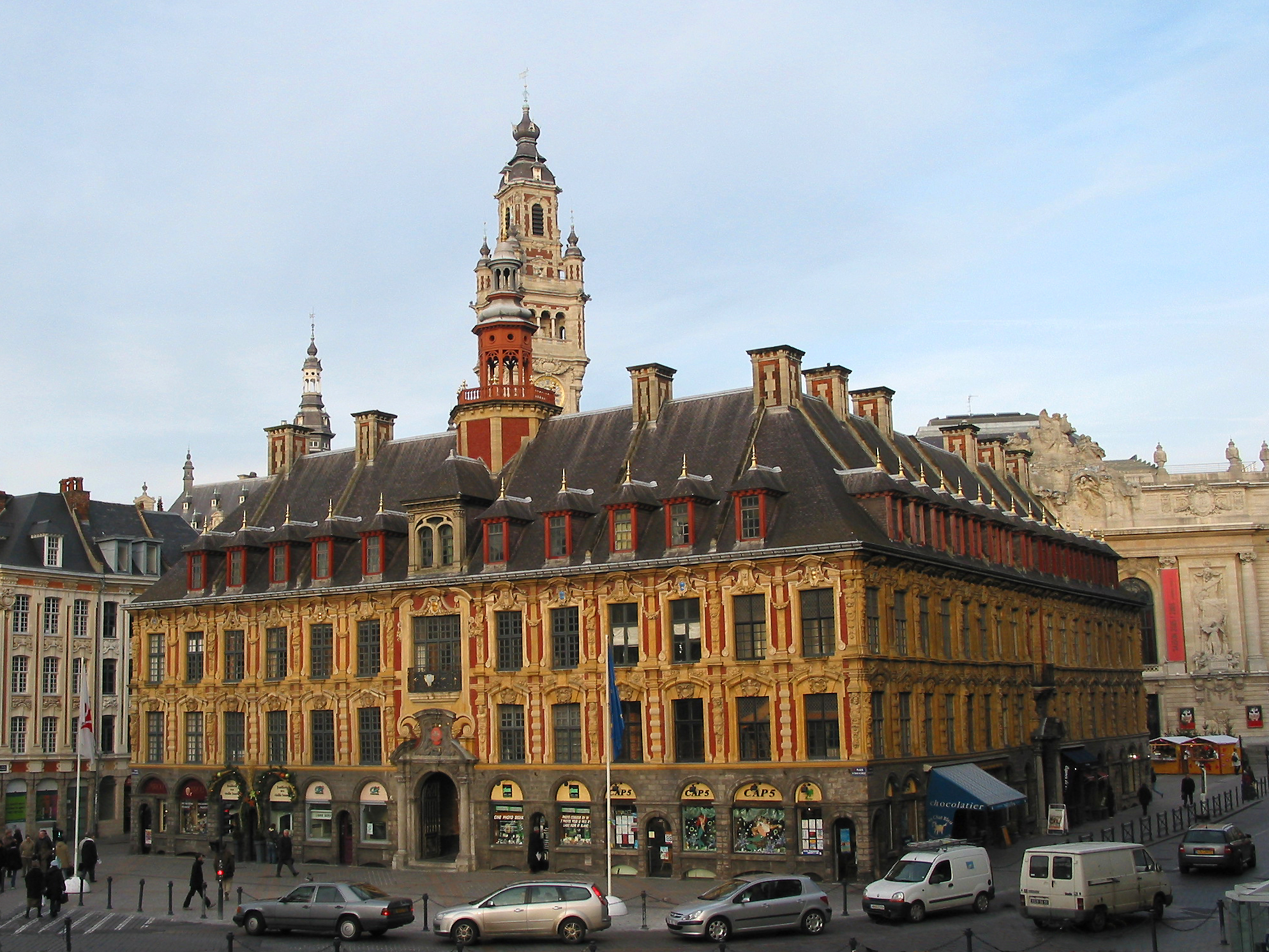 Lille (France), the Old Stock Exchange (1652-1653) and belfry of the trade Chamber